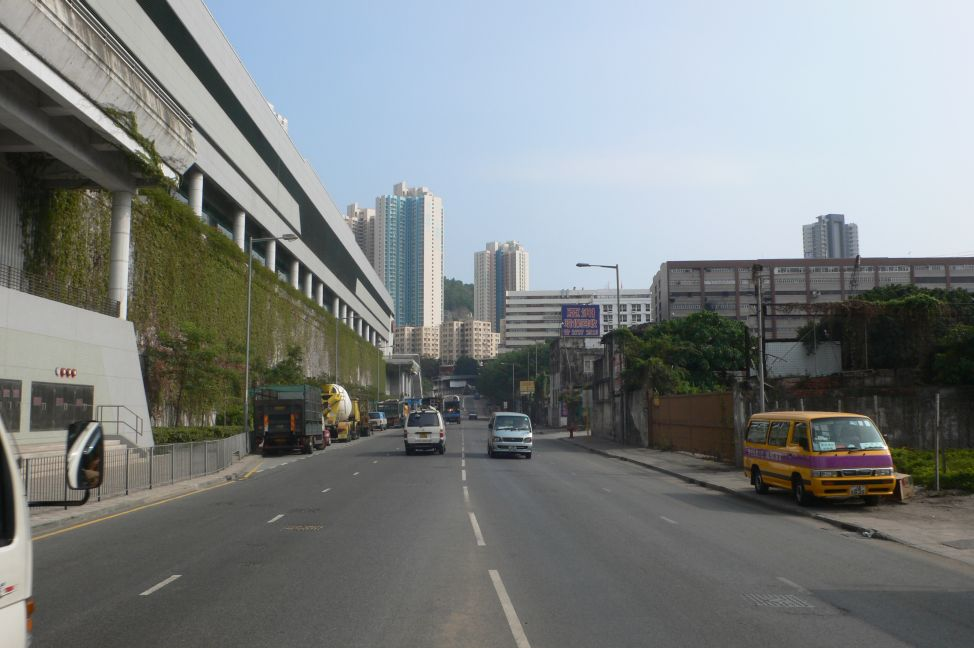 Cha Kwo Ling Road in Kwun Tong District, Hong Kong